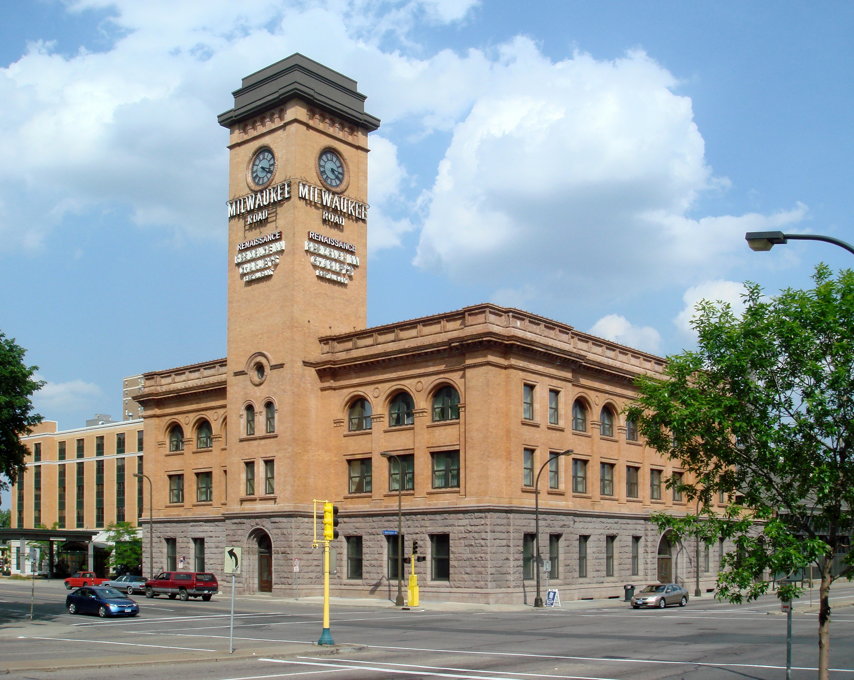 The Depot, Minneapolis, Minnesota